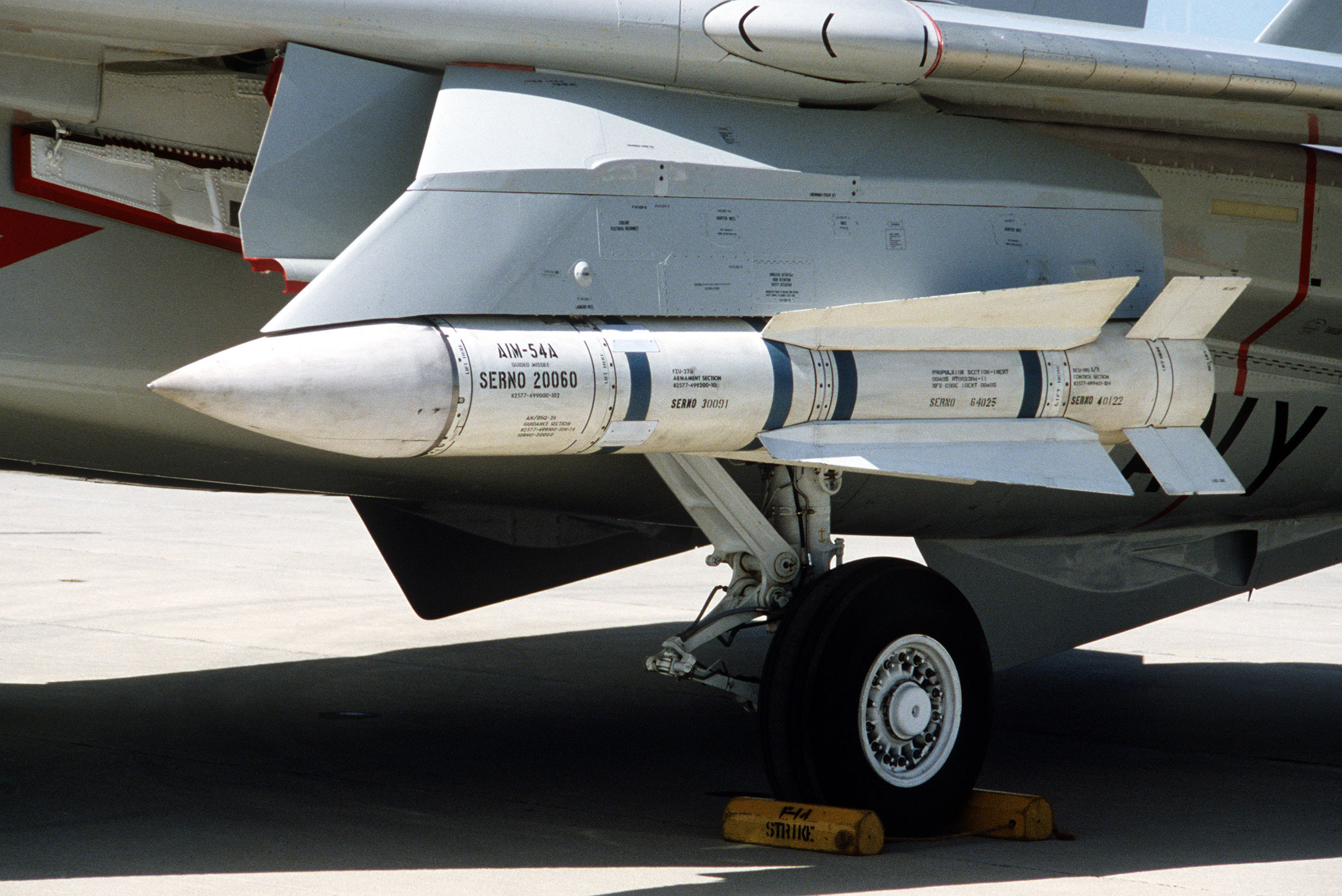 An AIM-54A Phoenix air-to-air missile mounted on a Grumman F-14A Tomcat fighter at Naval Air Station Patuxent River, Maryland (USA), on 13 May 1984.